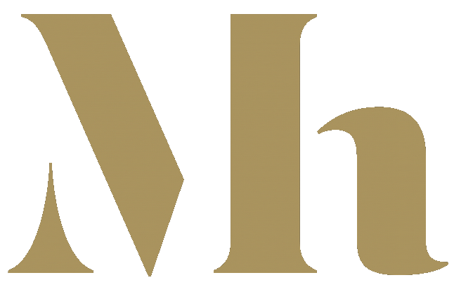 Logo for Mauritshuis, an arte museum of the Netherlands.